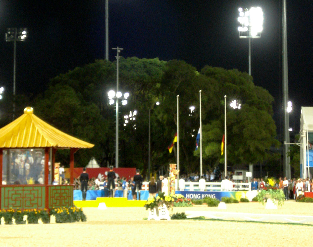 Beijing 2008 Olympic Game - Equestrian Event - Victory Ceremony of Individual Dressage